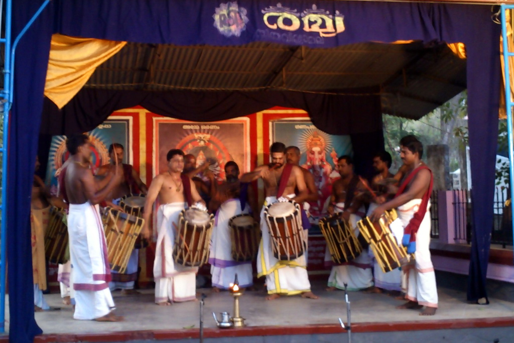 This media file is uploaded with Malayalam loves Wikimedia event - 3.